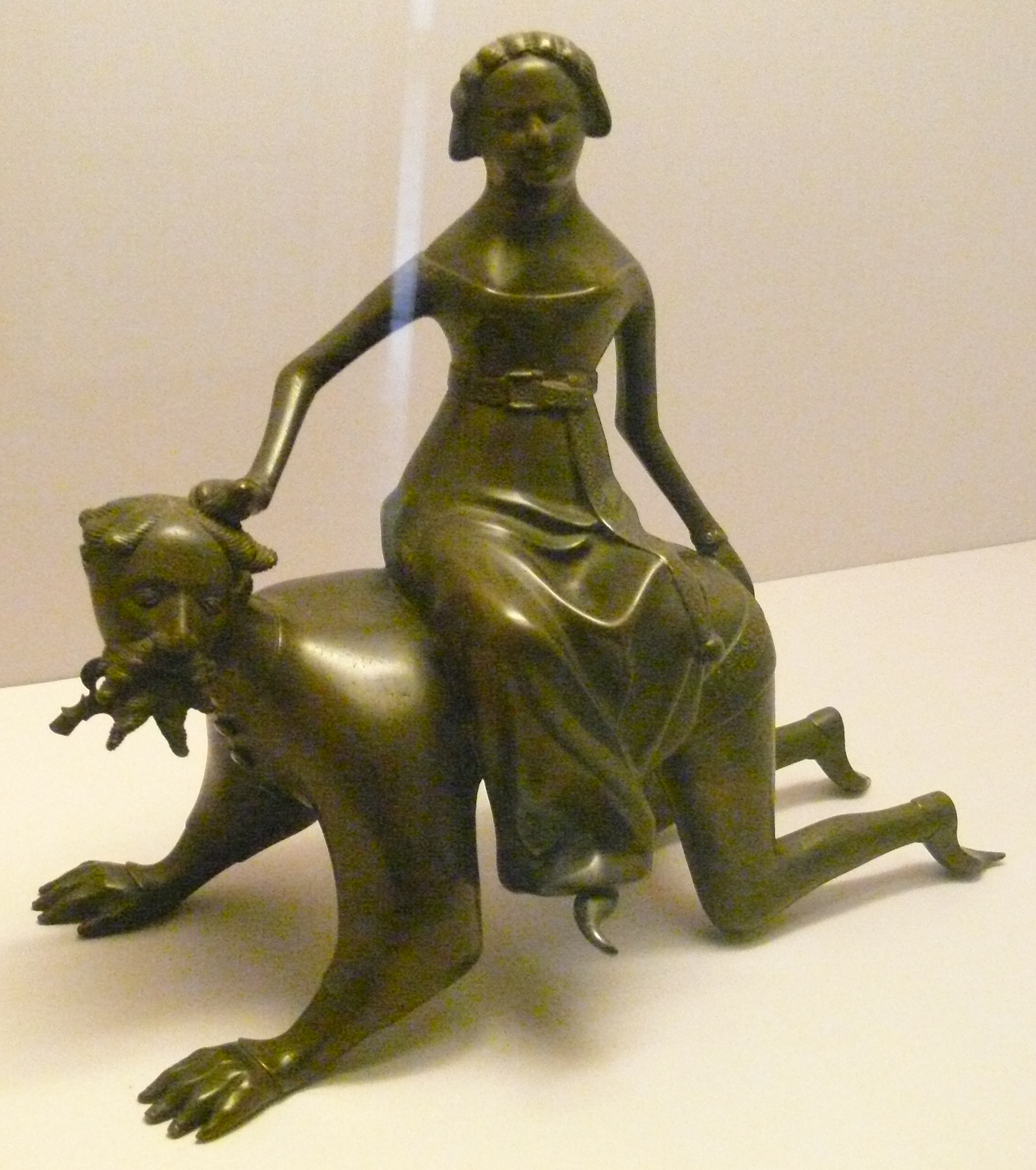 German-made Aquamanile from ~1400 AD, exposed at Dobrée Museum, Nantes, France